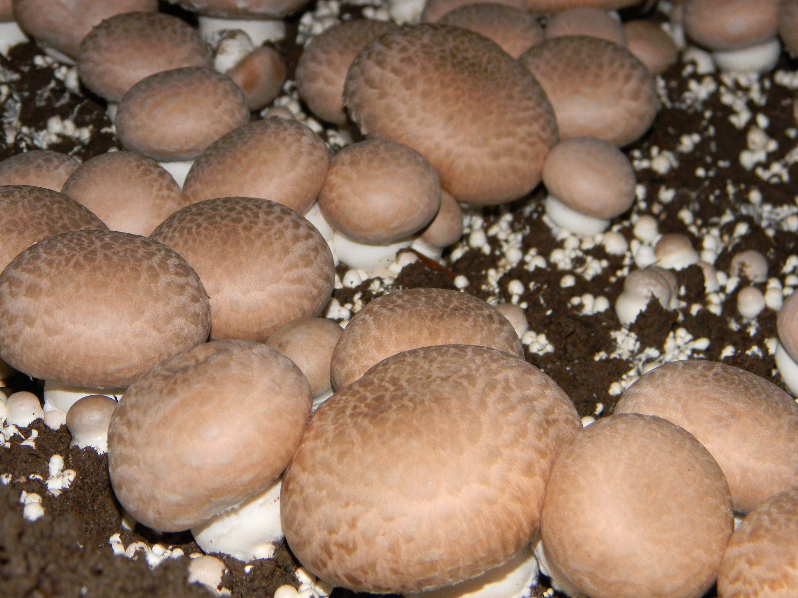 Agaricus bisporus (J.E. Lange) Pilát Location: Ostrom’s Mushrooms, Mushroom Corner, Lacey, Washington, USA Observation Notes: of course I did sense your sarcasm, but in my response to your pretended to be unware of it. I do believe in natural organic fertilizers, and their use would not deter me from buying foods, like mushrooms… For more information about this, see the observation page at Mushroom Observer.